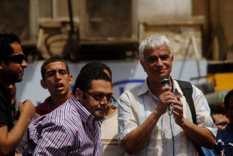 Labor Leader Kamal Khalil (The one with the microphone)